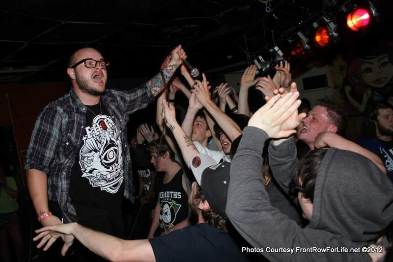 Brian Calzini while playing a concert.